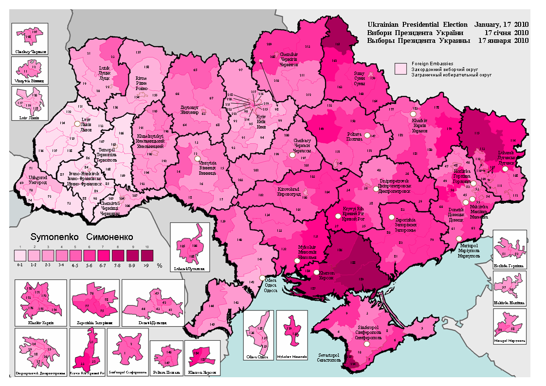 Result of Symonenko on Ukrainian presidental election 2010, 17 January